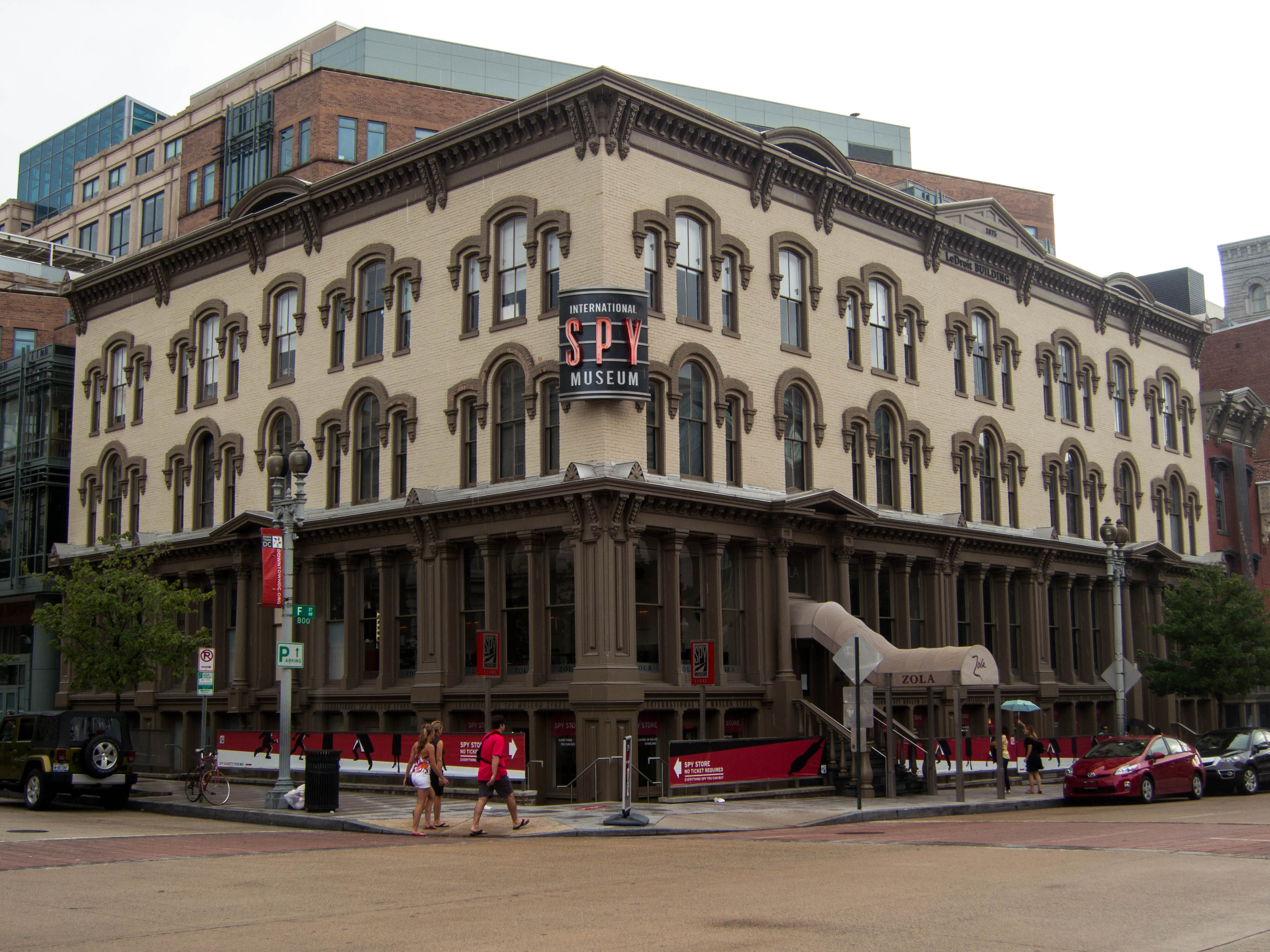 International Spy Museum